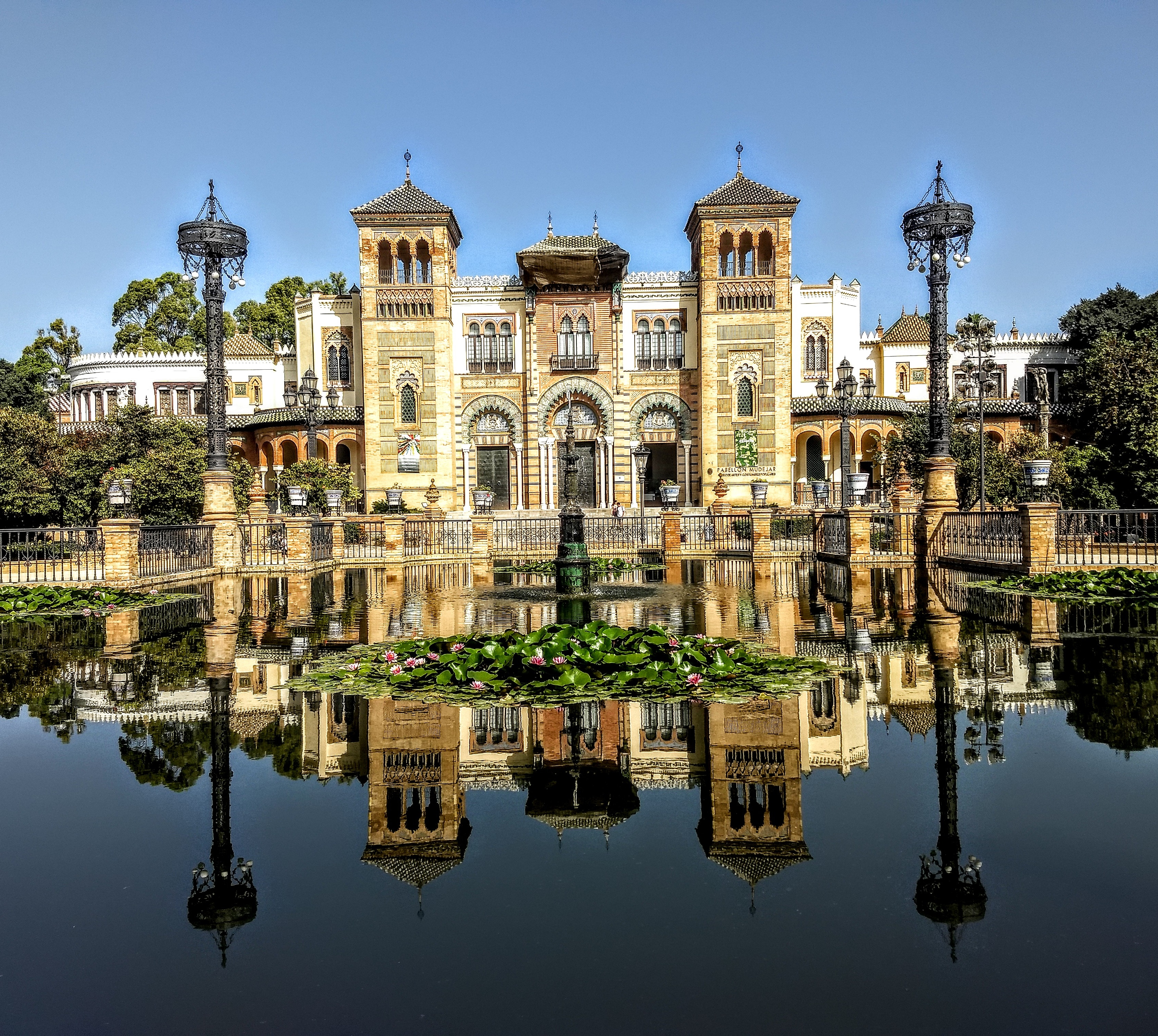 The Pabellon Mudéjar in Seville